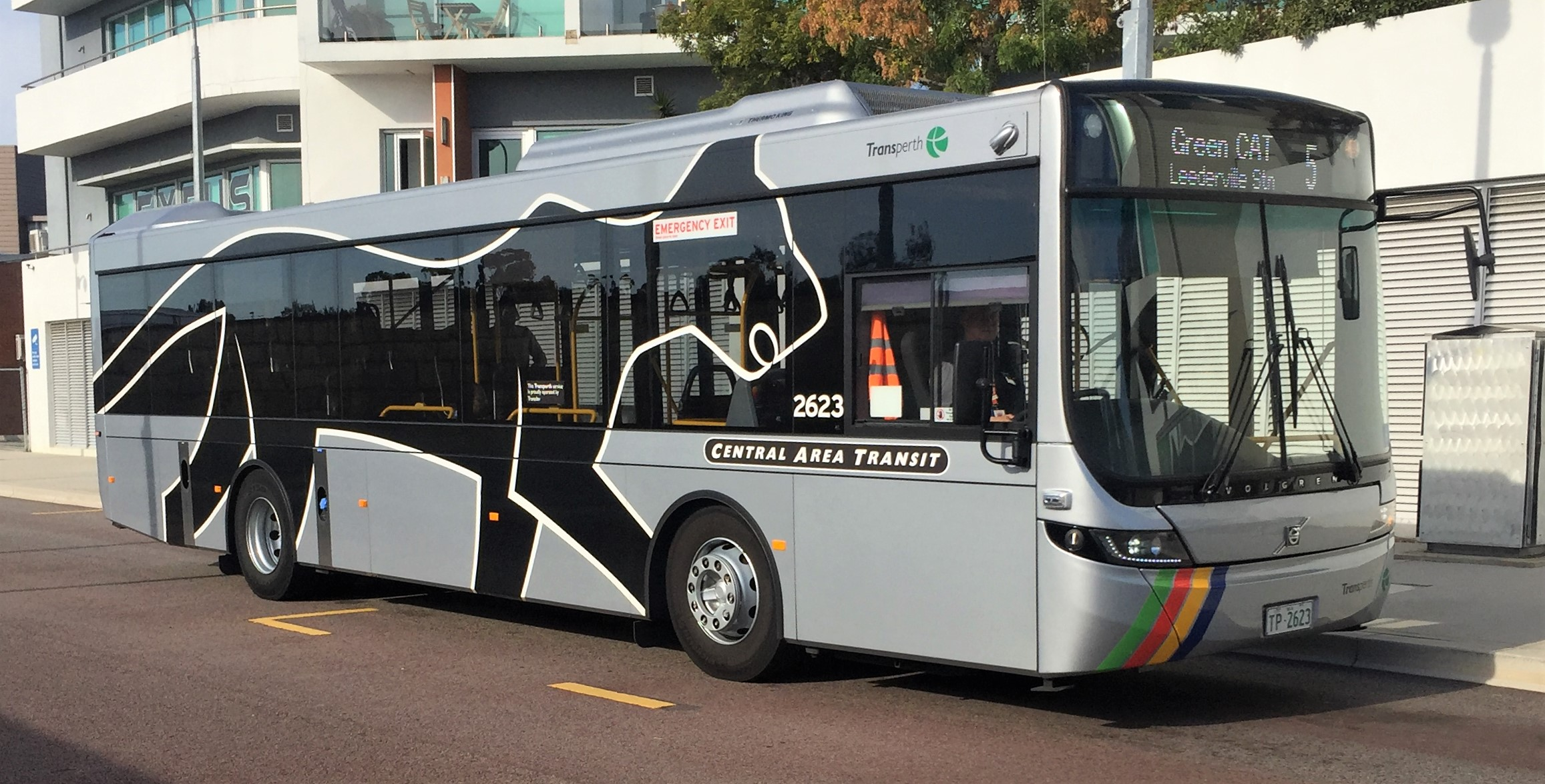 Volvo B8RLE 'midi' 2623 seen at Leederville Station